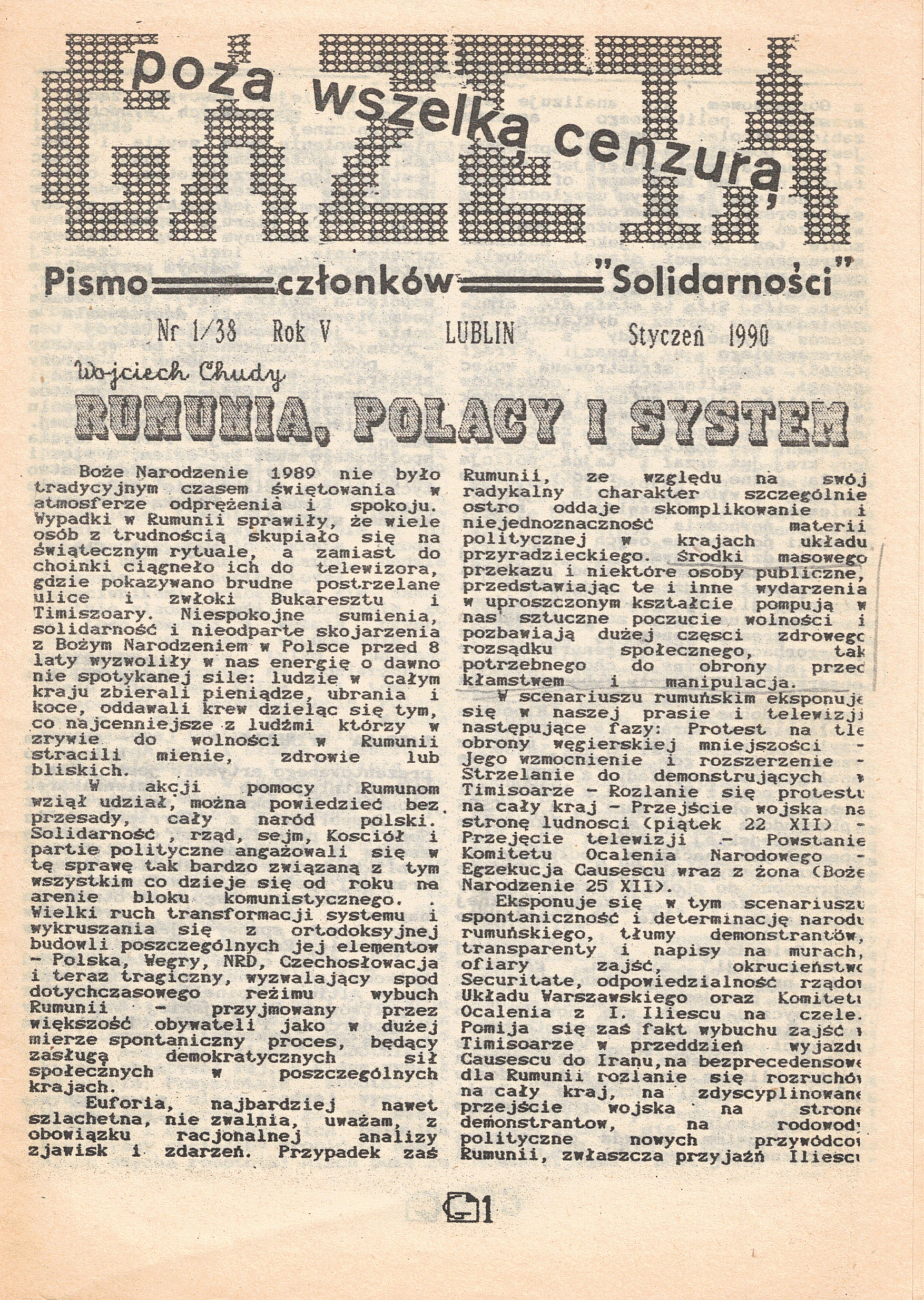 The first page of issue 38 Gazeta poza wszelką cenzurą